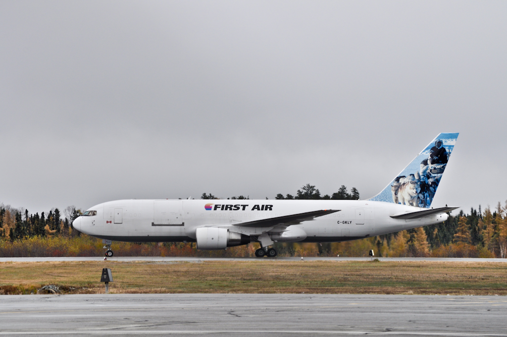 First Air 266 is arriving CYVO.